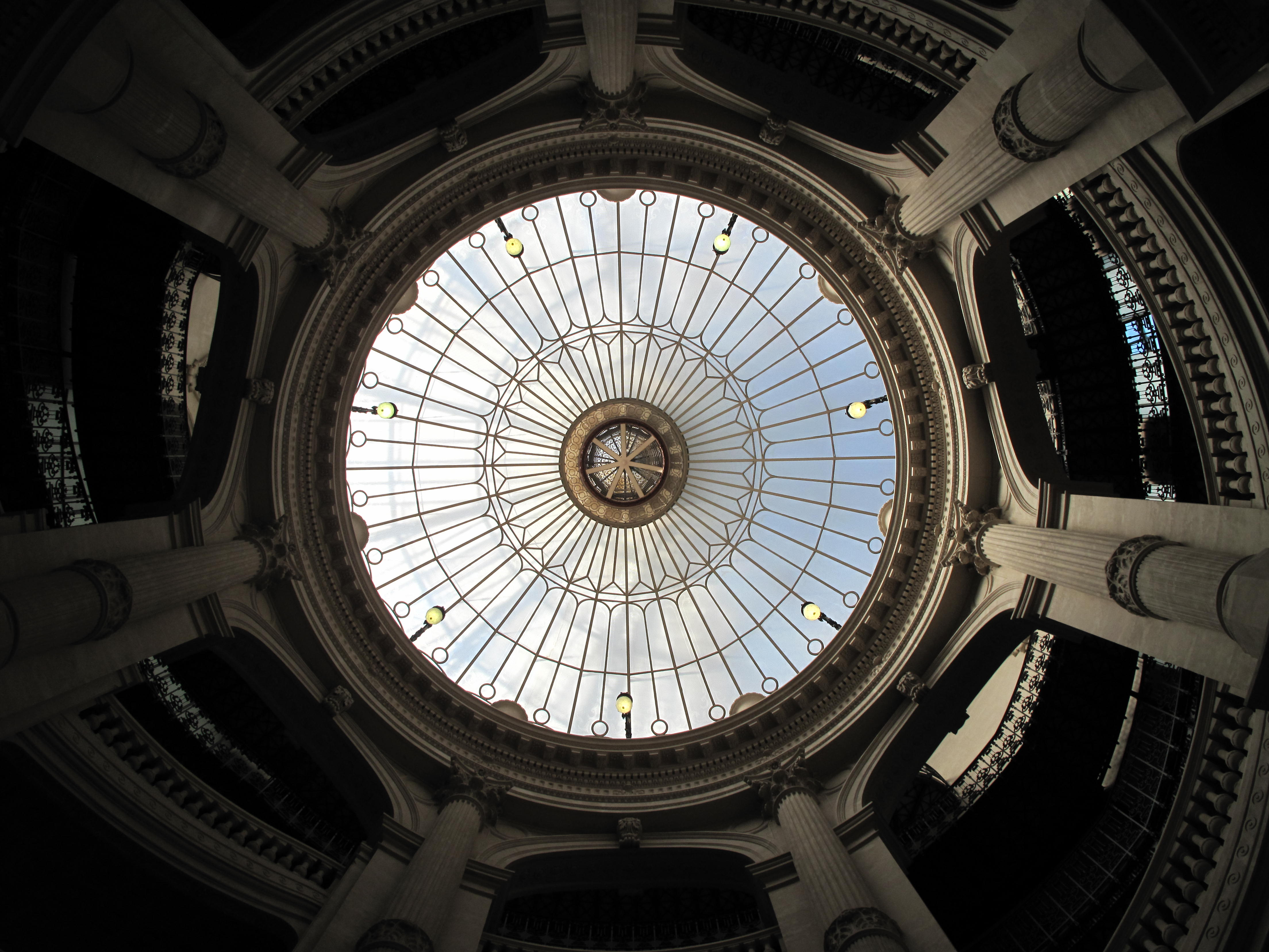 Roof lantern of the Credit Lyonnais Head Office : 19 Boulevard des Italiens, Paris 2nd arr.)